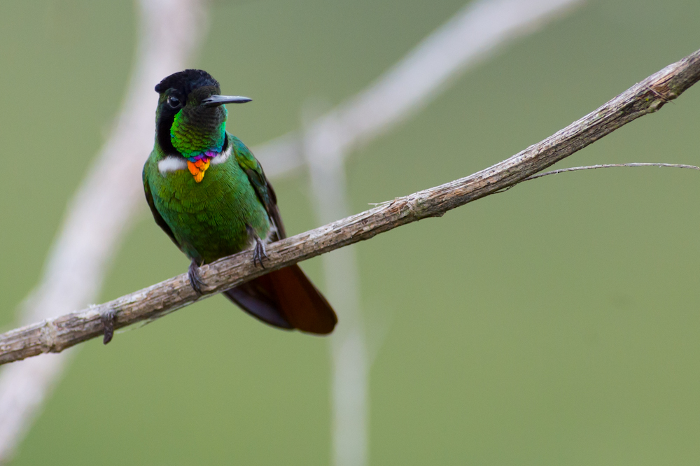 Hooded Visorbearer Augastes lumachella